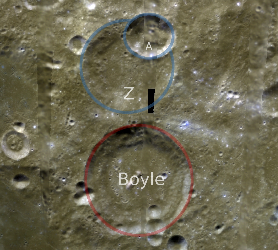 Boyle crater in the southern region of the far side of the Moon. Satellite craters A and Z to the north also marked. Cropped and annotated version (by uploader) of computer generated image by PDS MAP-A-PLANET.